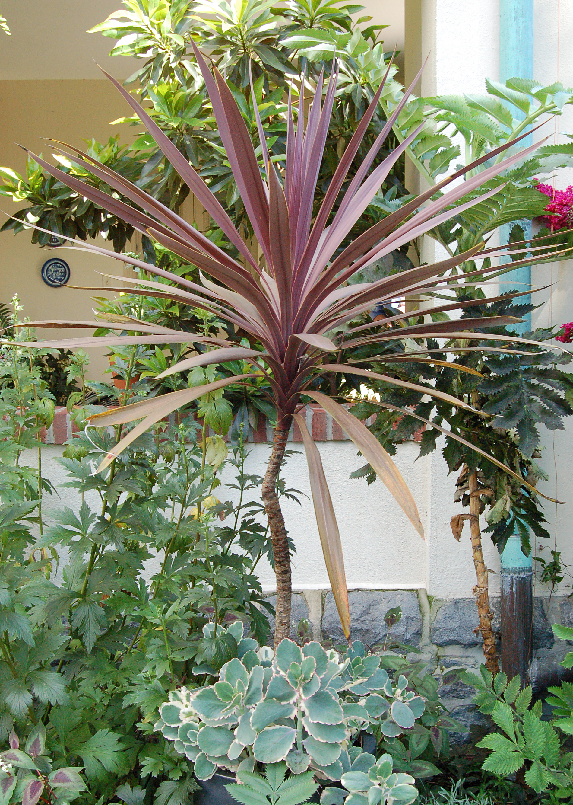 A picture of the Cordyline australis (red-foliage cultivars) en 'Red Sensation'. Photo taken at the Chanticleer Garden in Pennsylvania. Where it was identified.